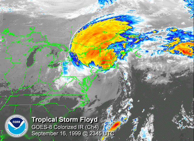 Hurricane Floyd over New England on September 16, 1999. From